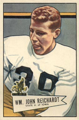 American football player Bill Reichardt on a 1952 Bowman Large card.